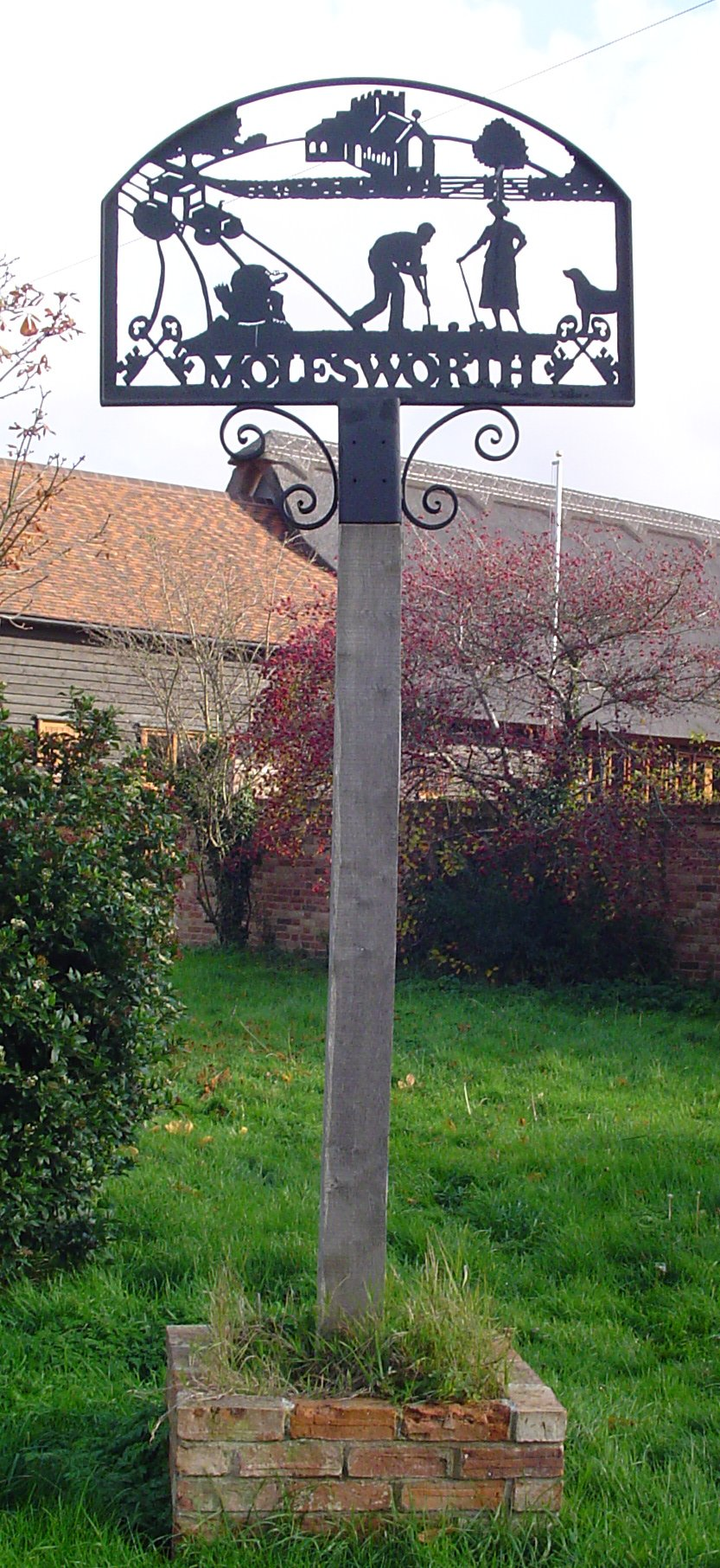 Signpost in Molesworth